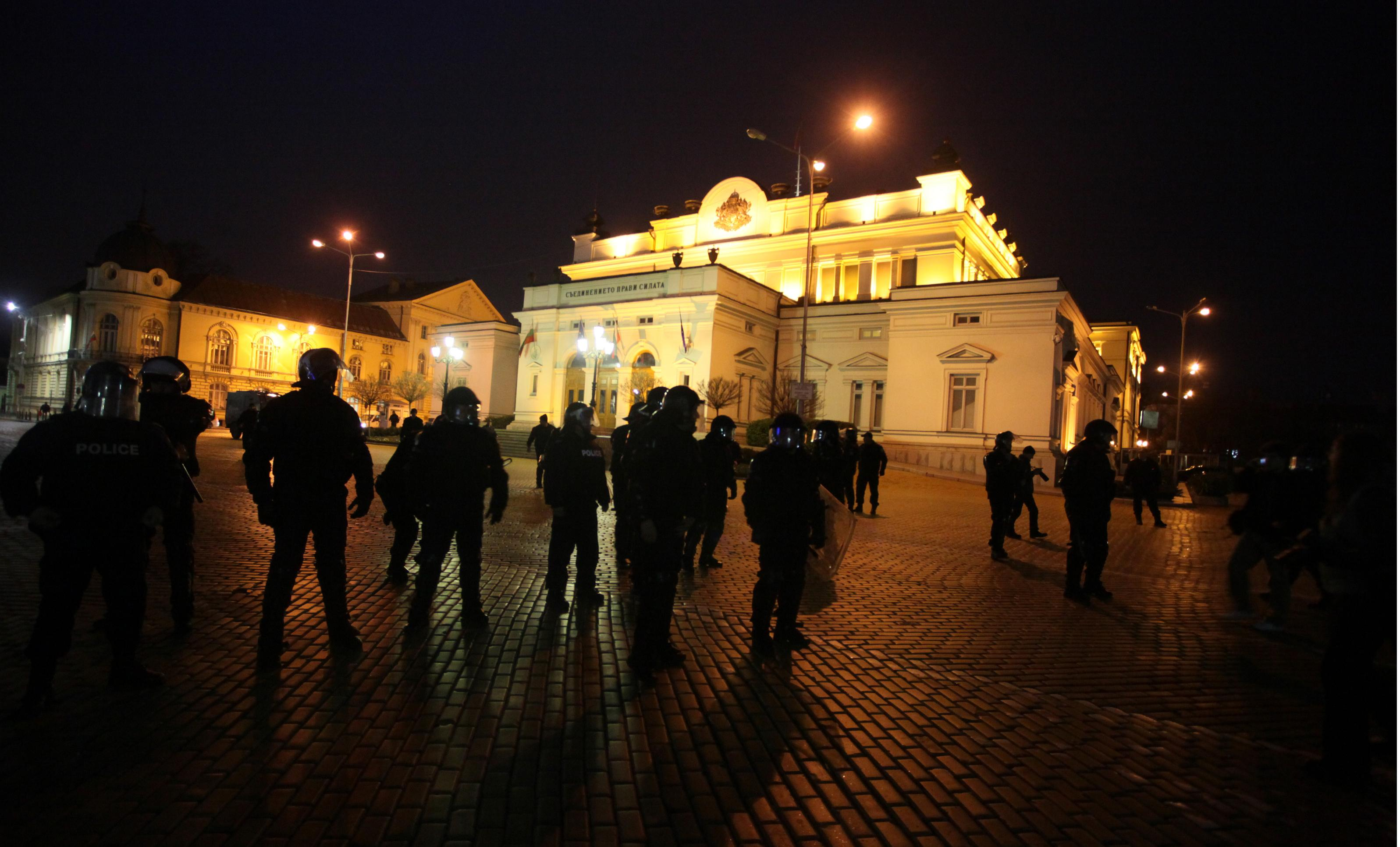 Gendarmerie provides security for parliament building, 18 Feb 2013